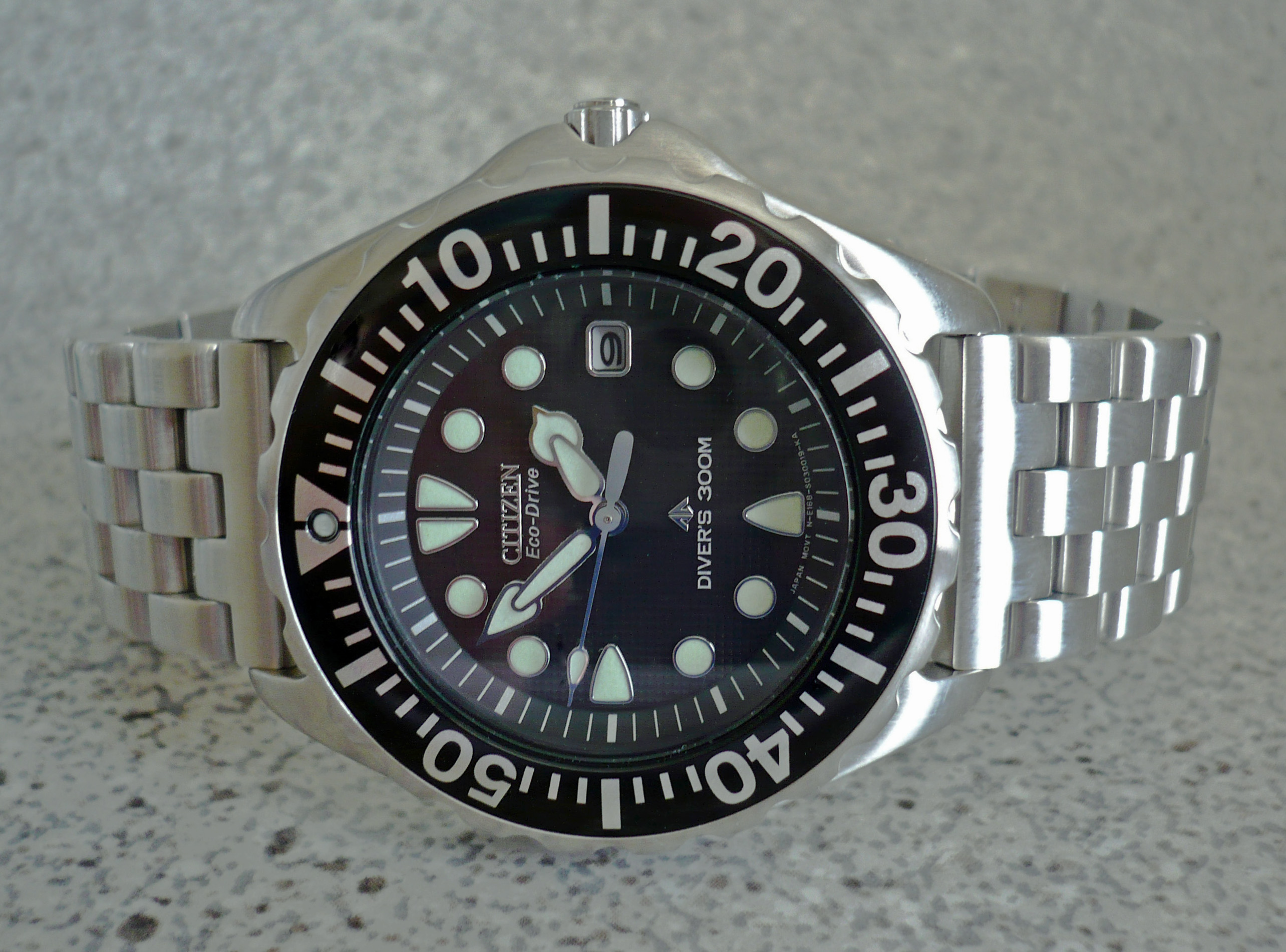 Citizen Promaster Eco-Drive BN0000-04H Diver's 300 m (tool watch suitable for scuba diving) on an aftermarket Watchadoo stainless steel bracelet. Solar cells located located under the dail provide power for the watch movement. The E168 caliber Eco-Drive movement used in this watch can run for 180 days on its secondary power cell before it needs light exposure for recharging. The movement has a ± 15 seconds per 30 days accuracy specification (within a normal temperature range of 5°C/41°F to 35°C/95°F). NATO Stock Number (NSN) 0883-99-852-5953. This particular watch was produced in May 2010.